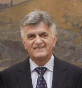 Philippos Petsalnikos